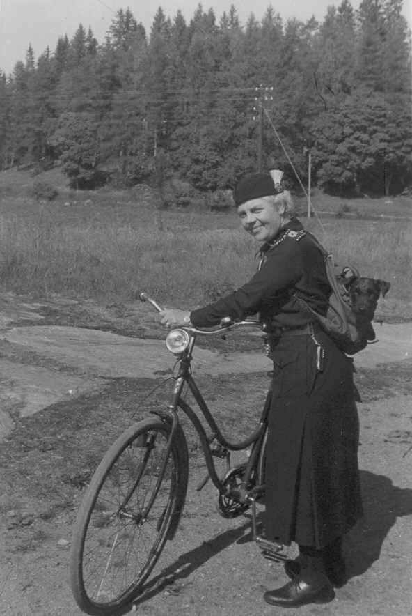 Gerda Bäckström, Ludde, flickscoutchef för Sveriges Flickors Scoutförbund 1935-49